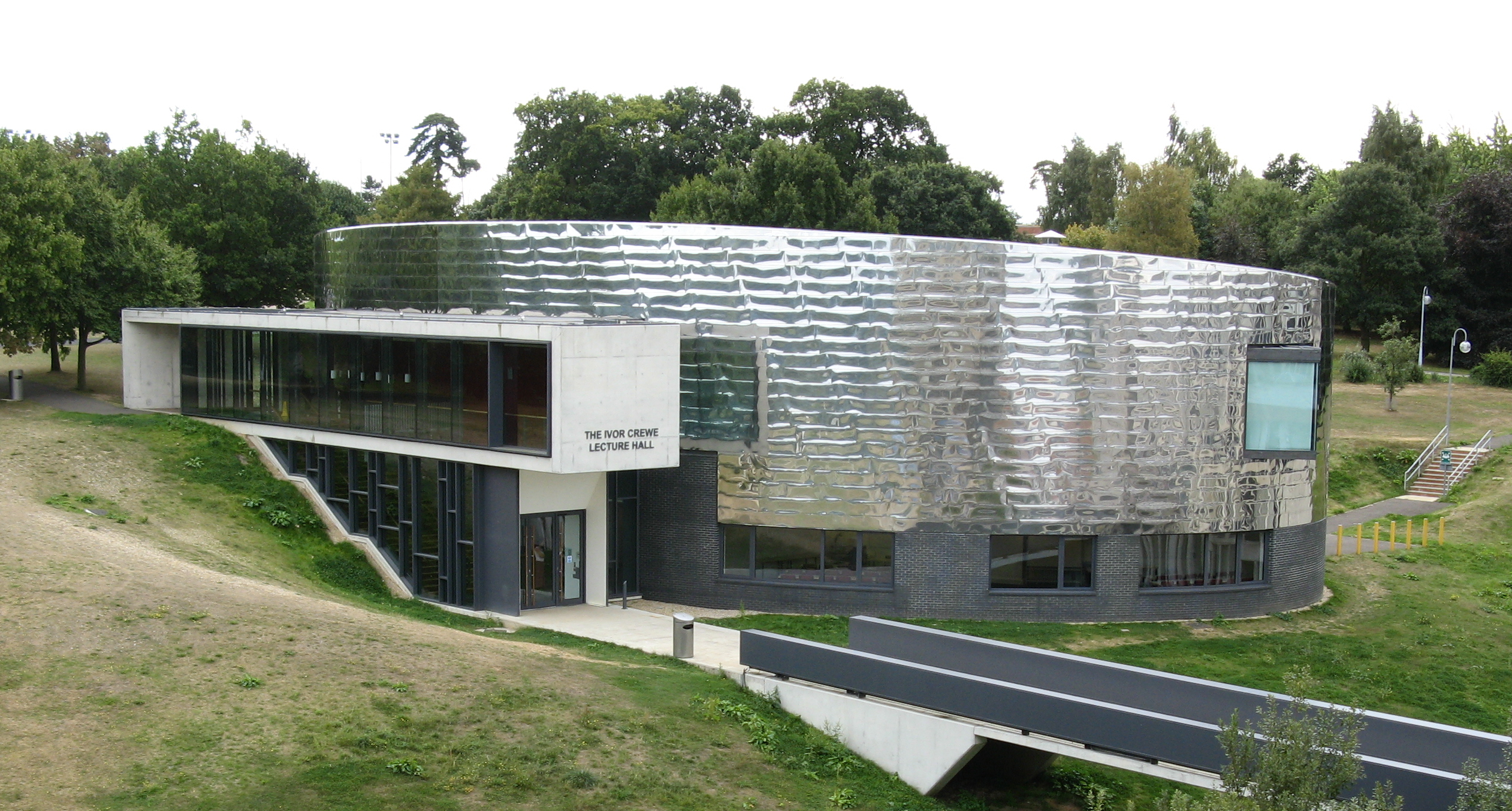 The Ivor Crewe Lecture Hall, University of Essex, from a Library window.